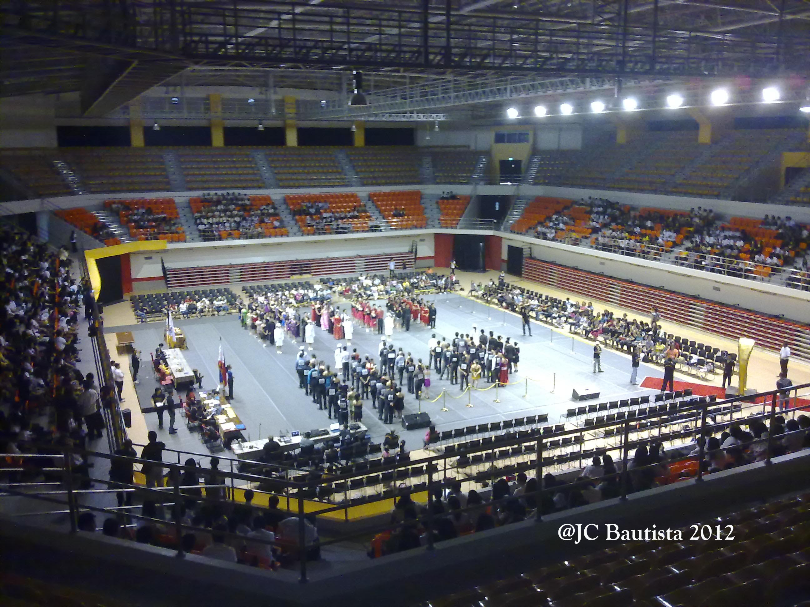 Main Court during IPEA week